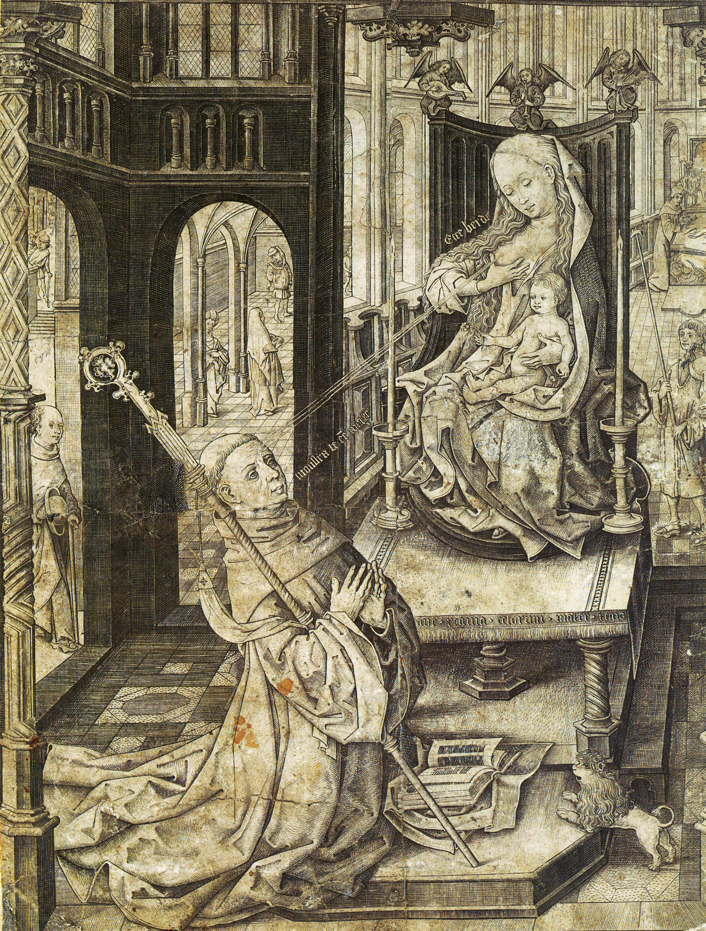 The Lactation of Saint Bernard of Clairvaux. Virgin Mary is shooting milk into the eye of Saint Bernard of Clairvaux from her left breast. Bernard described this miraculous healing of an eye affliction himself in the 12th century. the engraving is 32 x 24.1 cm.